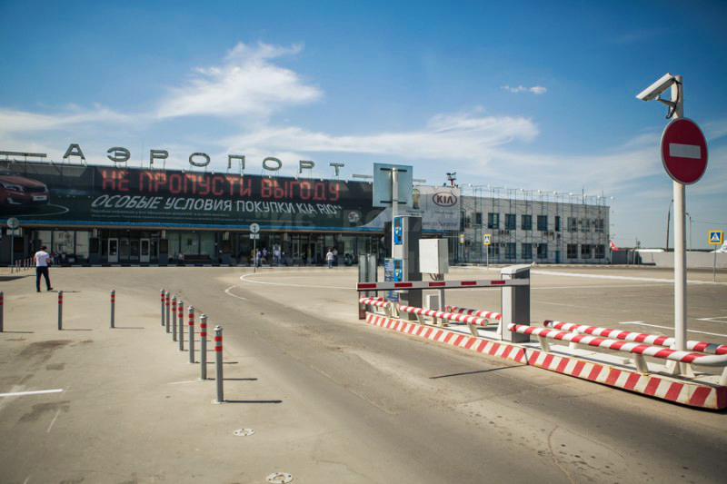 An image of the Nizhny Novgorod International Airport Strigino from the front entrance.